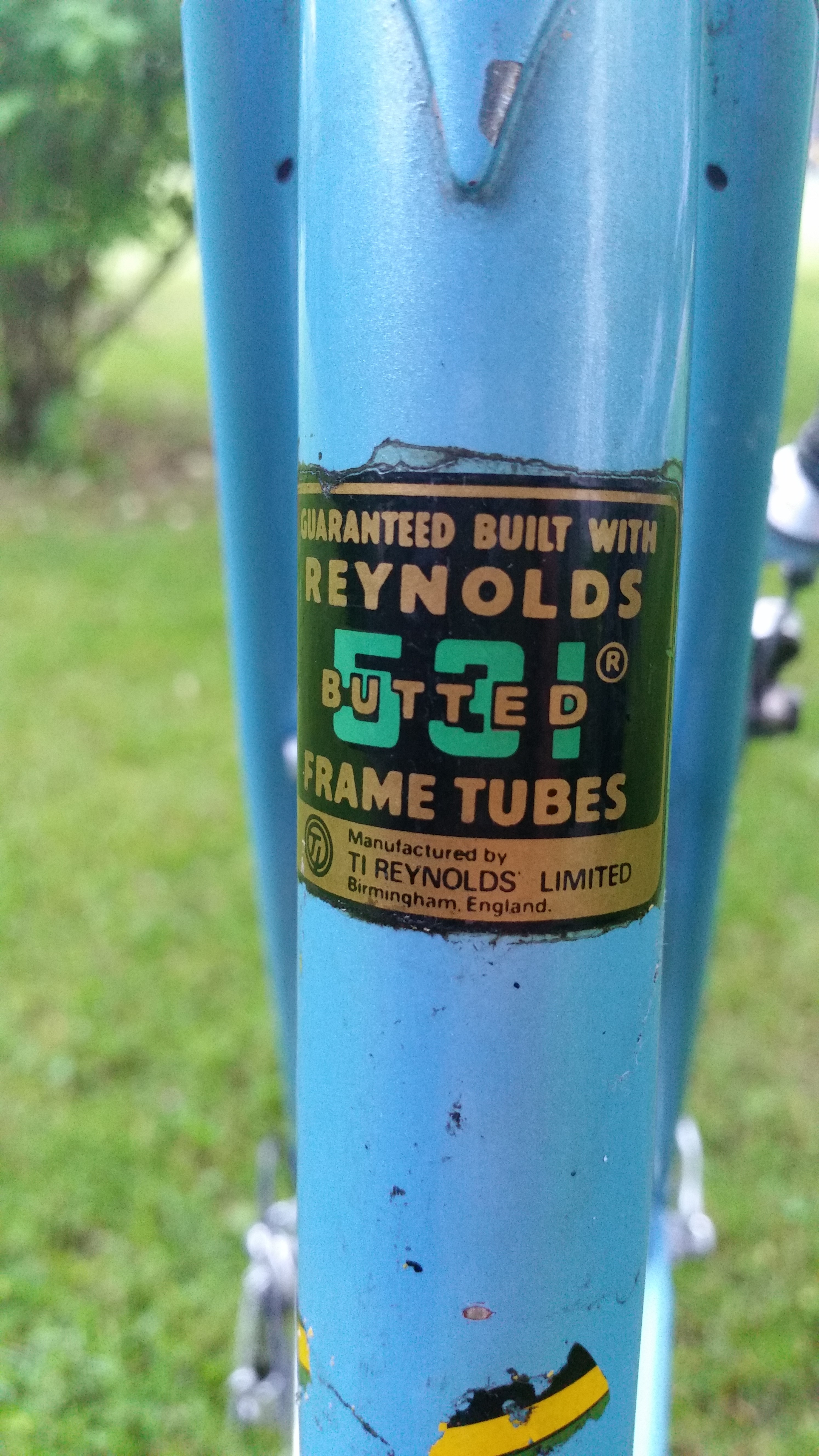 Bicycle (Romani) frame made of Reynolds 531 tubes